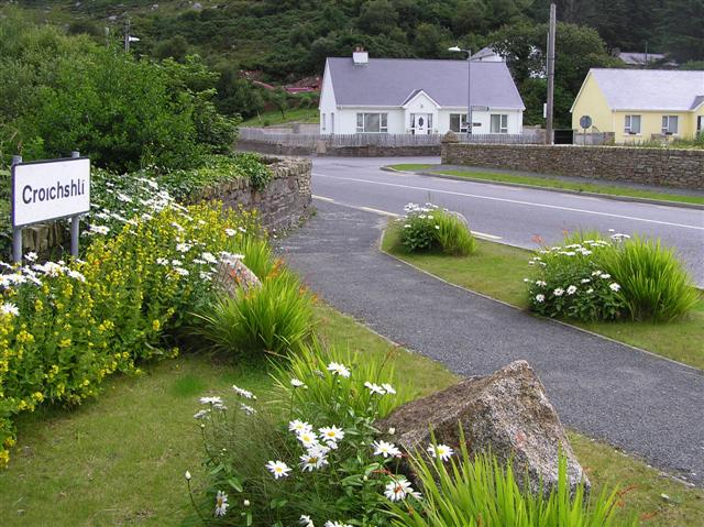 Crolly (Croishlí) Heading north